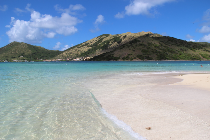 Clear water at Pinel Island, Saint Martin, Caribbean